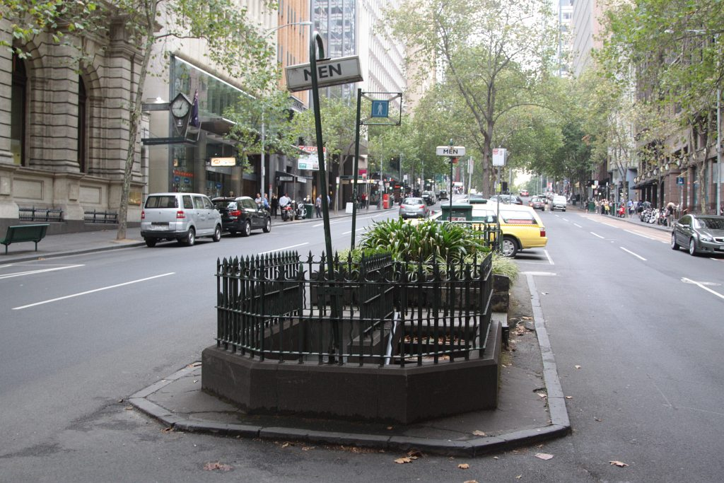 Underground public toilet located in the centre median of Queen Street, just north of Collins Street, Melbourne, Victoria, Australia. Built in 1905 it was the second underground public toilet built in Melbourne. It was taken out of service in June 2013 and the access stairways capped with concrete. Victorian Heritage Register (VHR) Number: H2109